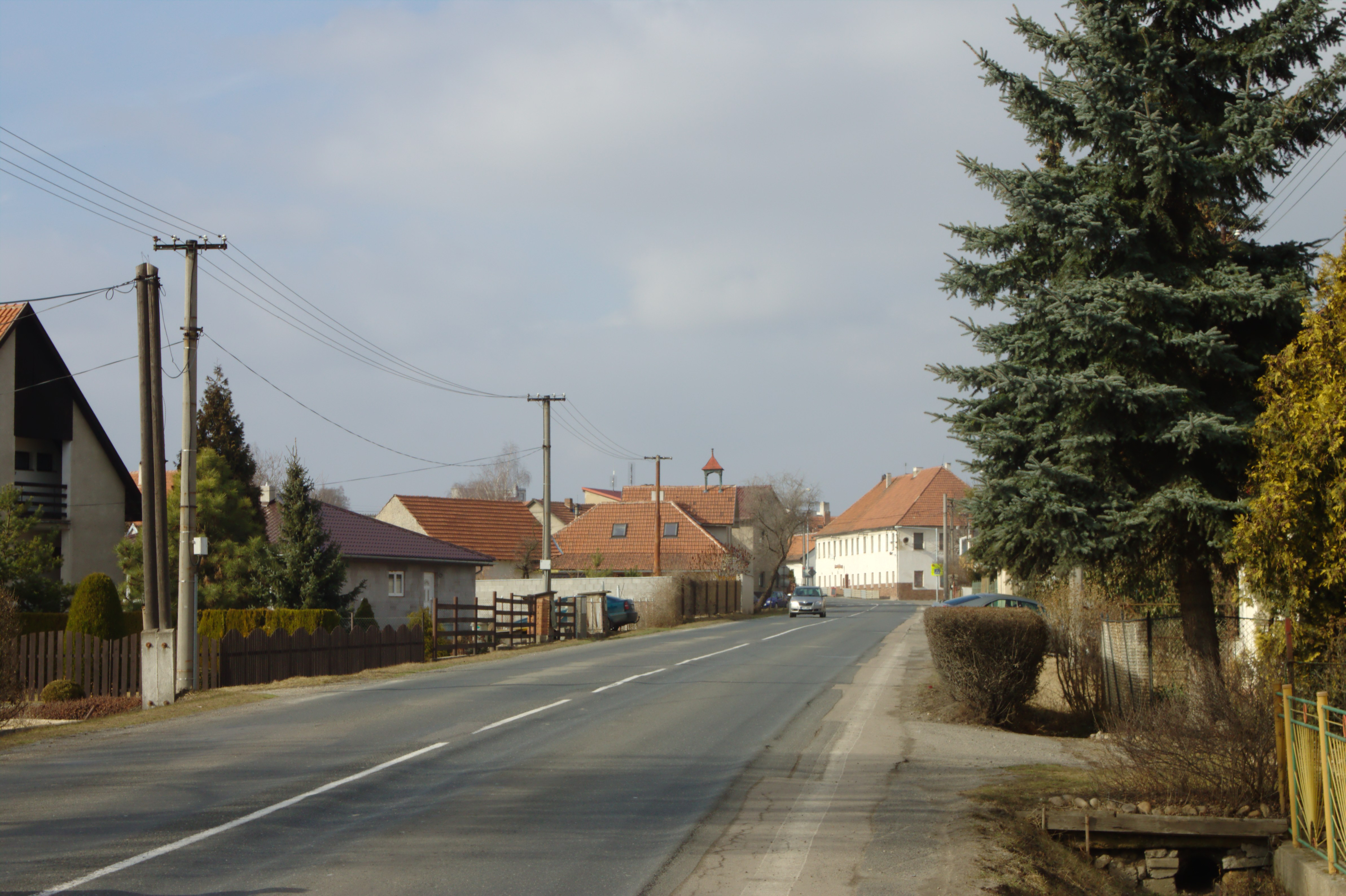 Nová Ves, a village in Mělník District, Central Bohemian Region, CZ